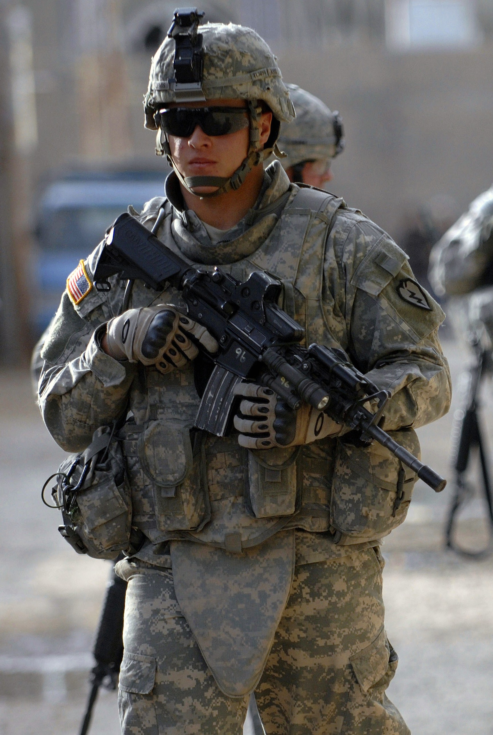 U.S. Army Pvt. Derek Hayes, a mortarman from Charlie Company, 1st Battalion, 27th Infantry Regiment, 2nd Stryker Brigade Combat Team, 25th Infantry Division, patrols Tarmiya, Iraq, Feb. 17, 2008. (cropped)